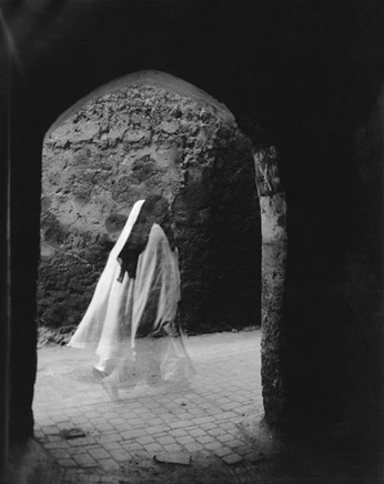 Ames Dans Les Rues - No:12